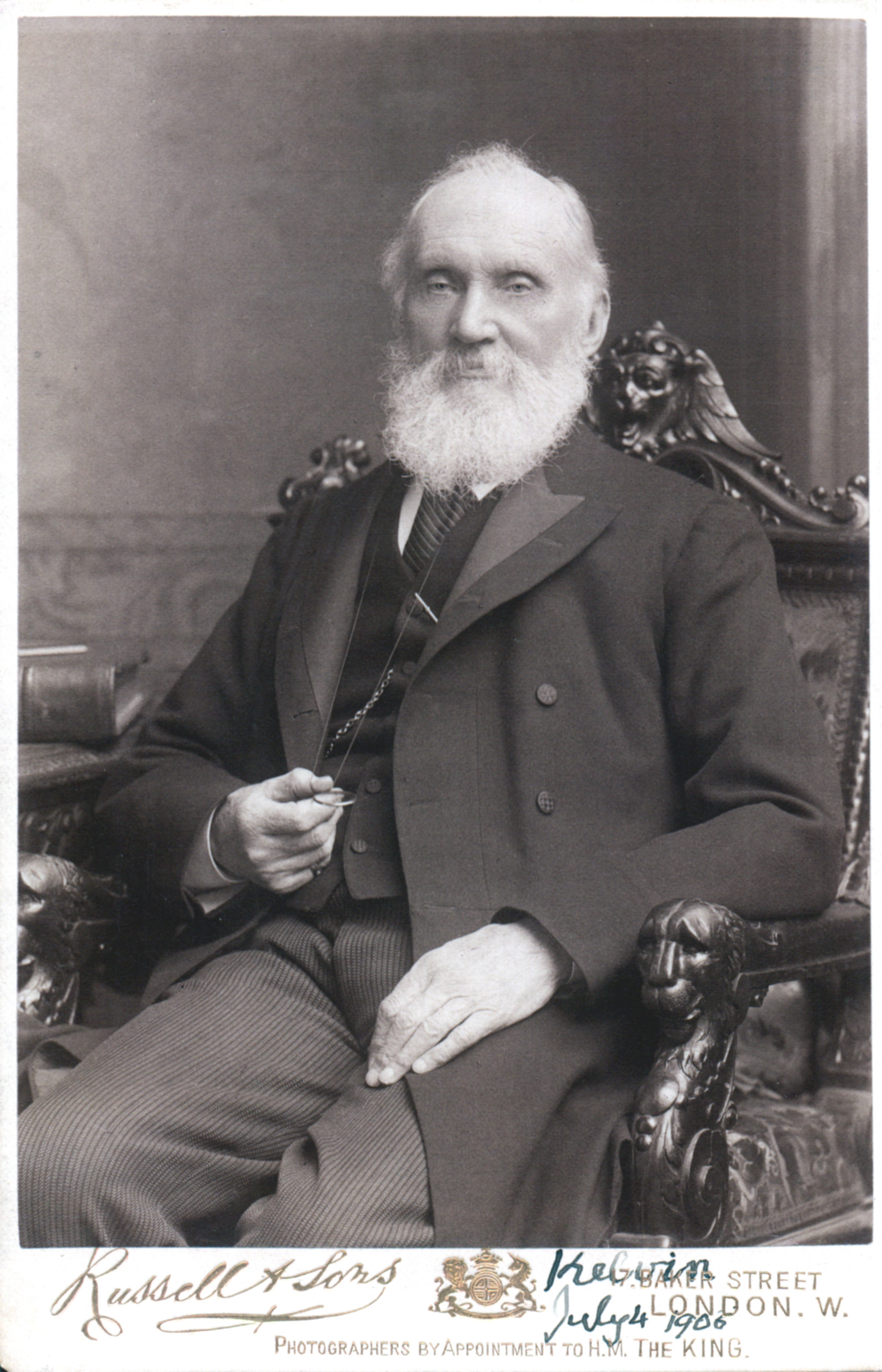 Creator/Photographer: Unidentified creator Medium: Medium unknown Dimensions: 14.6 cm x 10 cm Date: 1906 Collection: Scientific Identity: Portraits from the Dibner Library of the History of Science and Technology - As a supplement to the Dibner Library for the History of Science and Technology's collection of written works by scientists, engineers, natural philosophers, and inventors, the library also has a collection of thousands of portraits of these individuals. The portraits come in a variety of formats: drawings, woodcuts, engravings, paintings, and photographs, all collected by donor Bern Dibner. Presented here are a few photos from the collection, from the late 19th and early 20th century. Persistent URL: [1] Repository: Smithsonian Institution Libraries Accession number: SIL14-T002-05